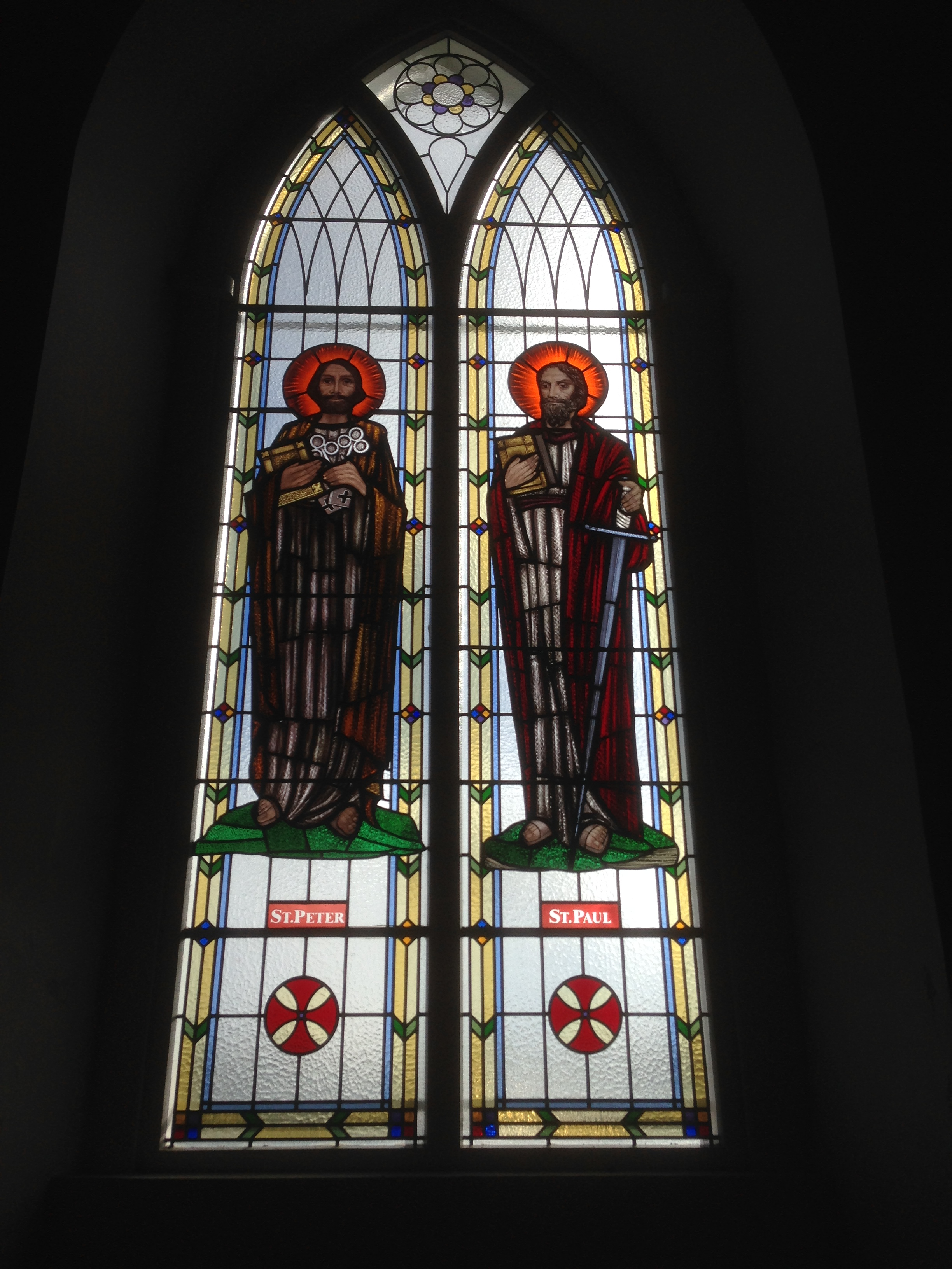 Satined glass